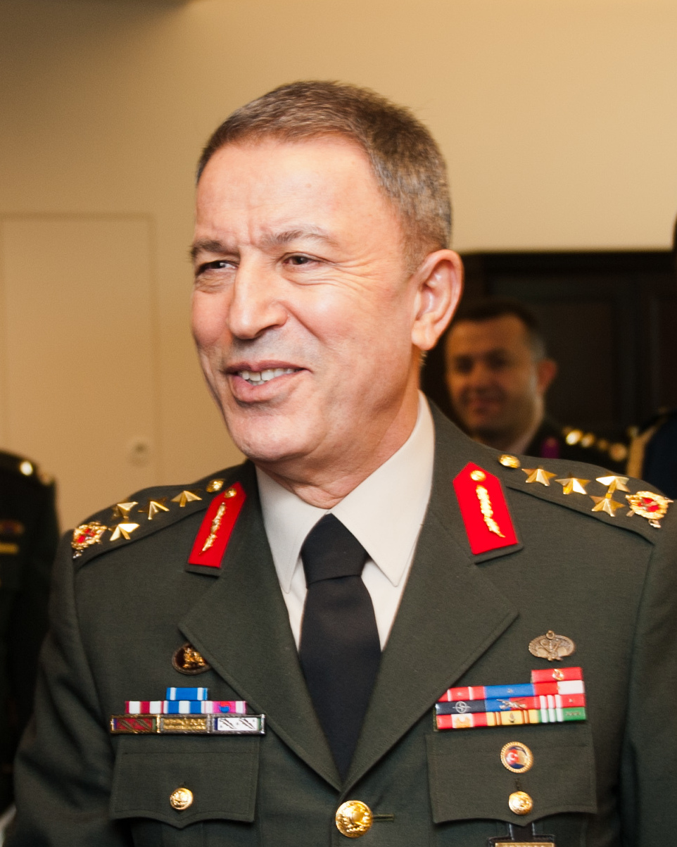 General Hulusi Akar, former Commander of the Turkish Land Forces and General Staff of the Republic of Turkey.